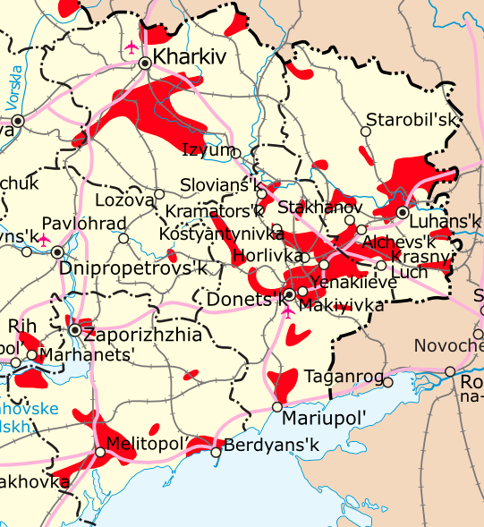 Eastern Ukraine in 1994, with significant ethnic Russian populations in red.